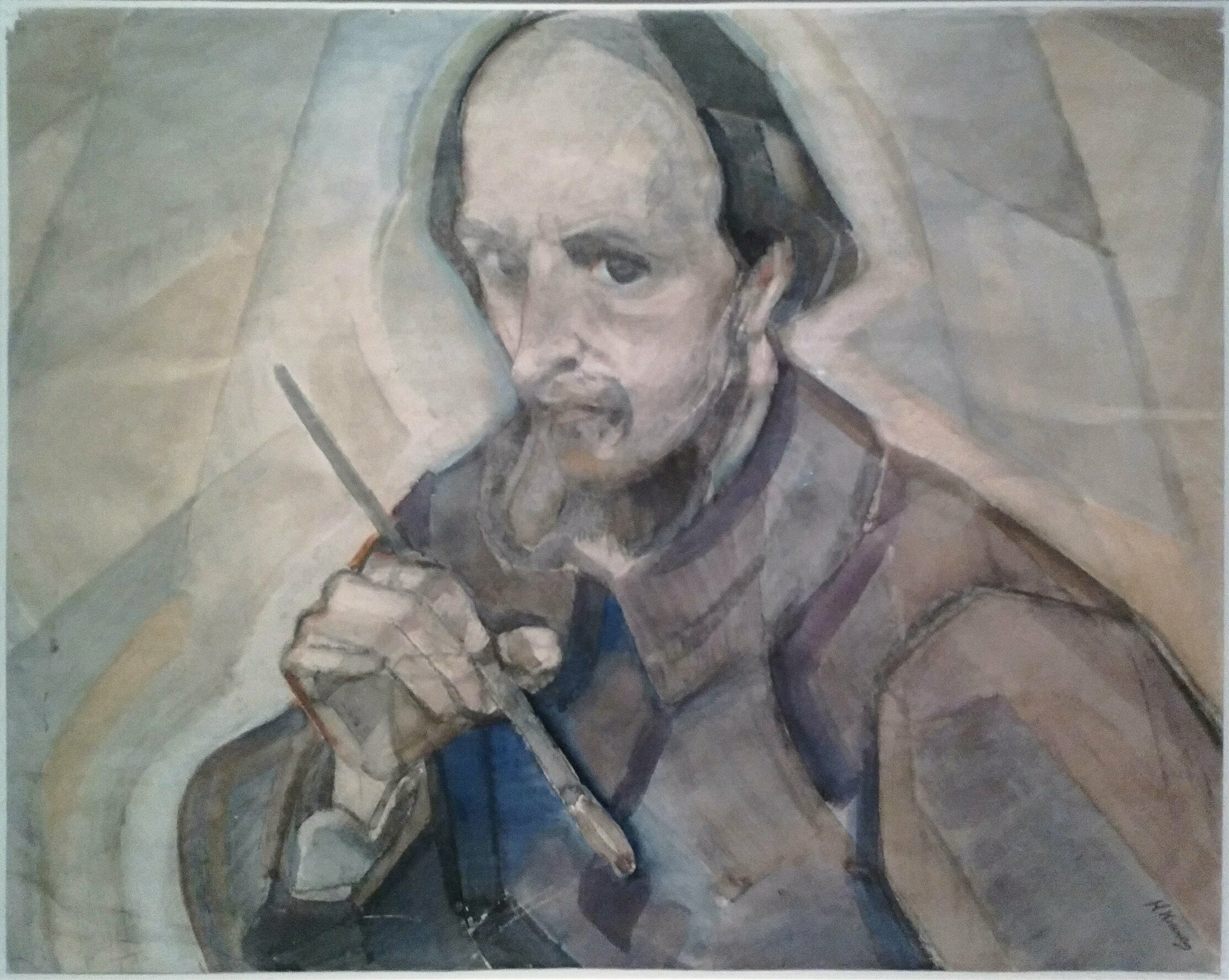 Herman Kruyder painted this self portrait for a 1917 exhibition.